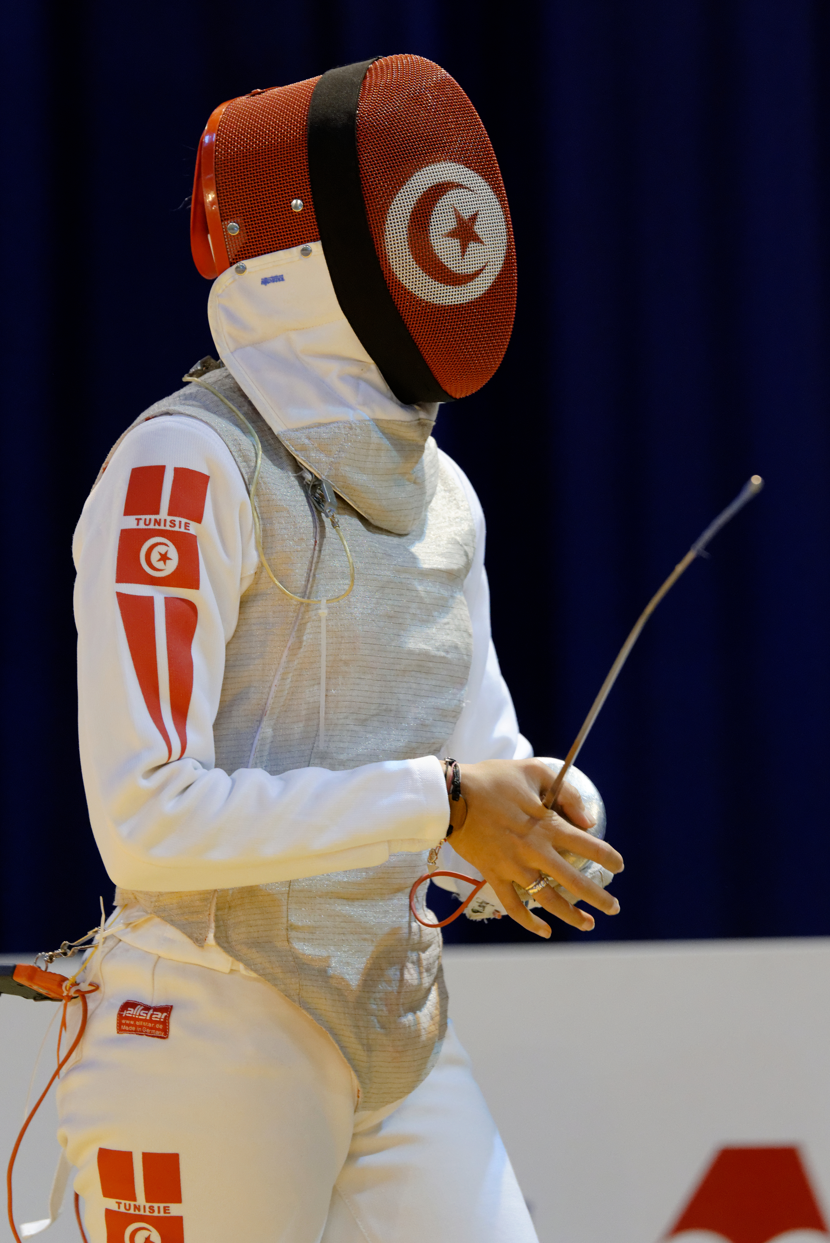 Tunisia's Inès Boubakri at the Saint-Maur Women's Foil World Cup.